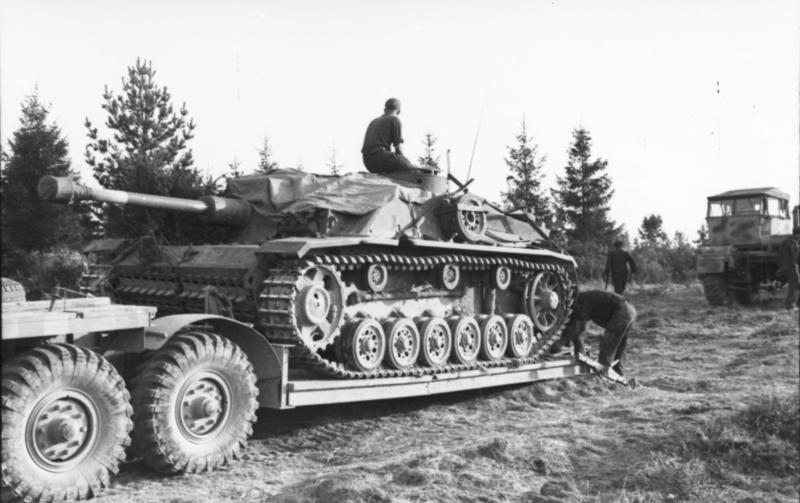 Information added by Wikimedia users.This trailer is the Sd.Ah.116 tank transporter. The rear bogie detaches (as shown here) for easy loading. The detached bogie may be seen in the background - the rectangular canvas cover is above a steersman's position, who steers the rear bogie of the trailer when being towed.